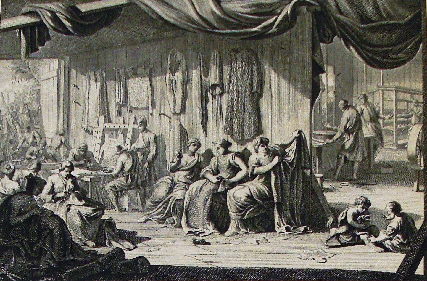 A print from the Phillip Medhurst Collection of Bible illustrations in the possession of Revd. Philip De Vere at St. George’s Court, Kidderminster, England.